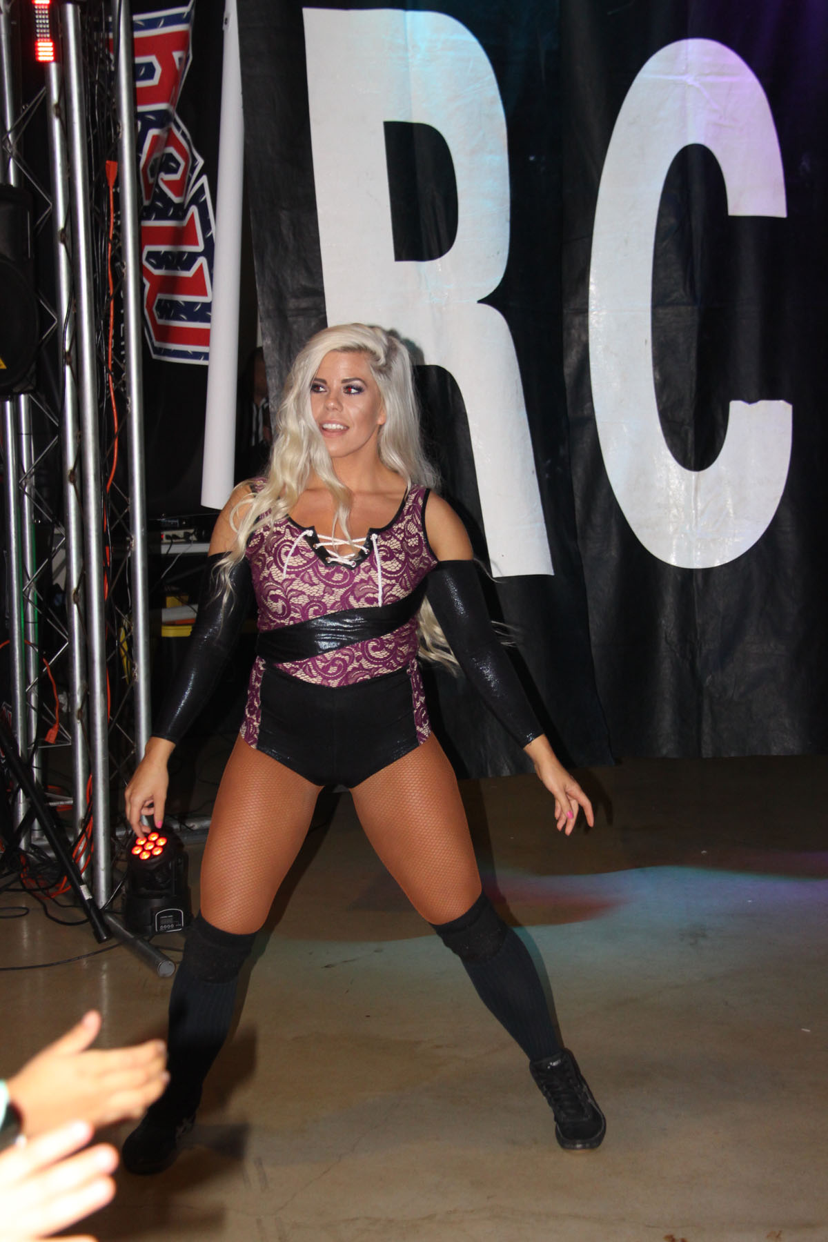 Barbi Hayden a noted wrestler entering the ring